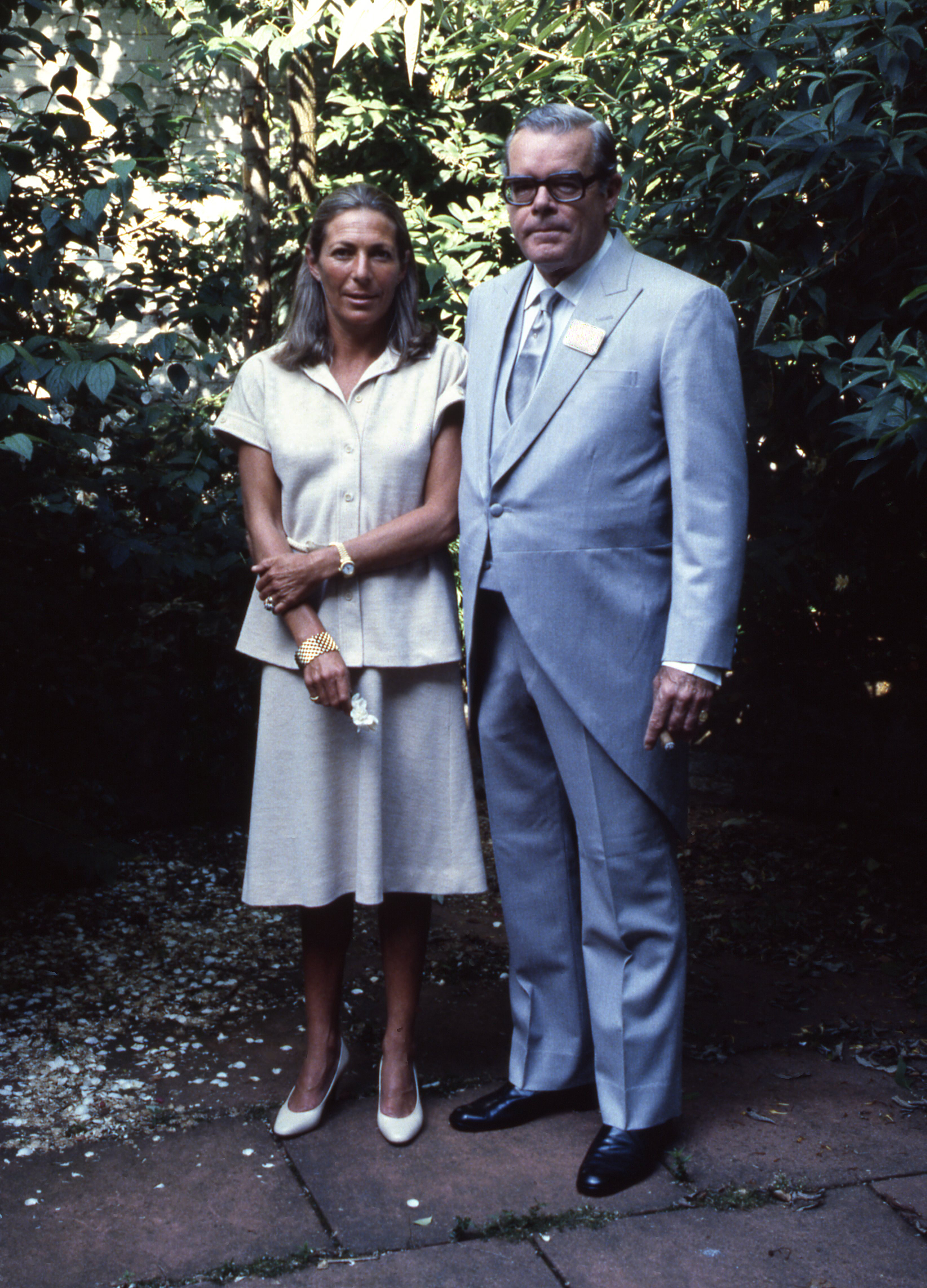 Kim the 11th Duke of Manchester with his wife Andrea. Taken in their garden in London